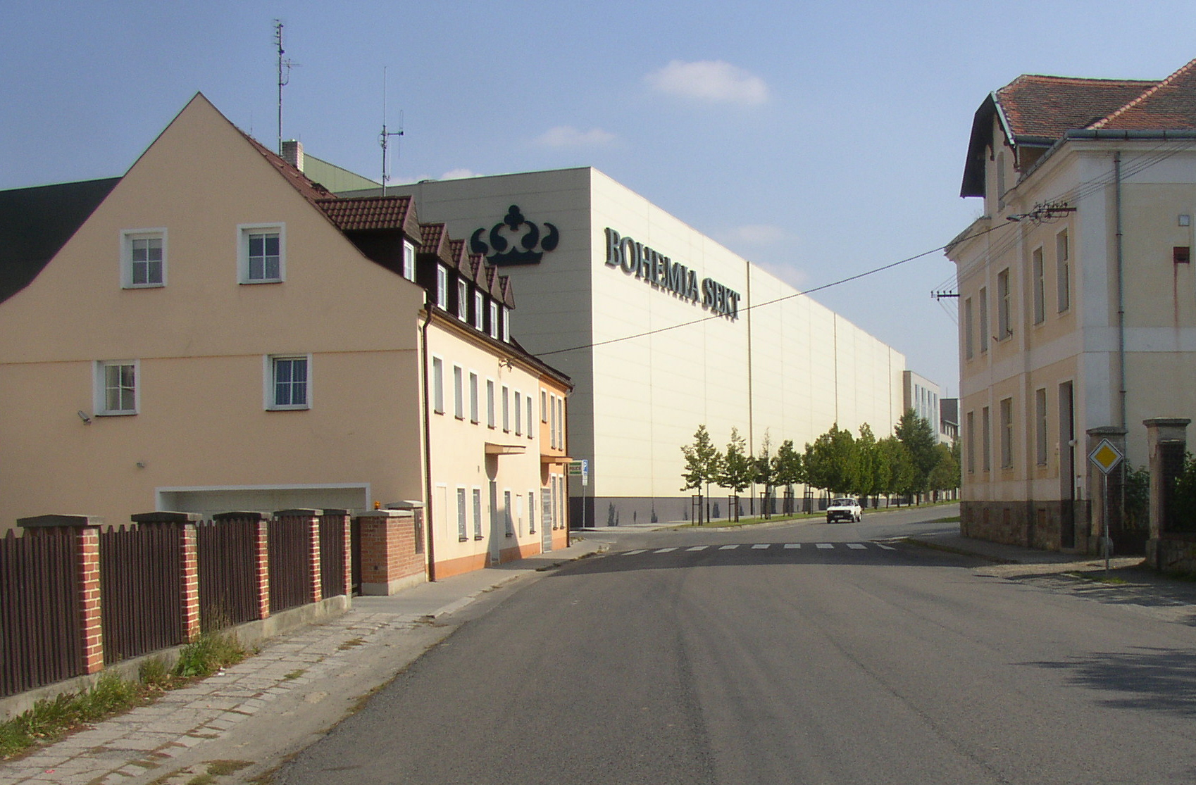 Sparkling wine factory in Starý Plzenec, Plzeň-City District, Czech Republic. A view along Smetana Street from the west.